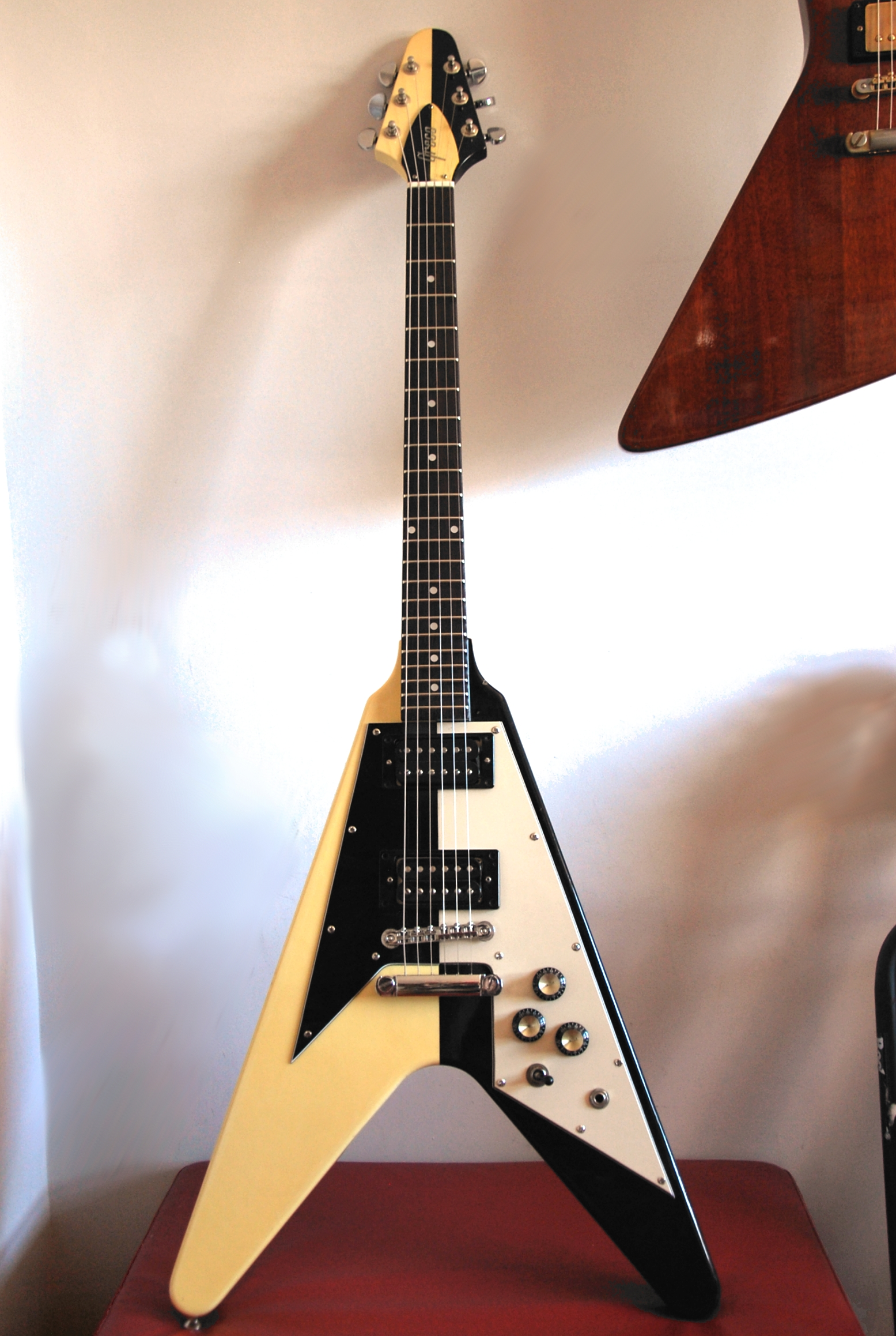 1984 Greco MSV650 Michael Schenker Signature 1984 MiJ Greco MSV650 Michael Schenker Signature (or "inspired by") guitar featuring original specs. Amazing tone? Check. Custom made black/cream pickguard to optimize look. Strat-type knobs have been changed by Gibson Flying V type knobs. Note the scalloped fingerboard from 12th on first strings. Body color has been aging... Flickr Tags: greco Japanese GUITAR Flying V VINTAGE 80s Michael Schenker Fernandes.